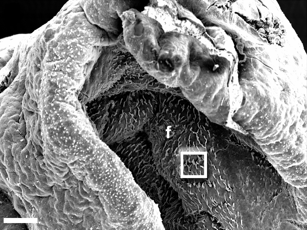 A medium-power scanning electron microscopy (SEM) micrograph showing of the rhinophore tip of Aplysia californica showing the cilia-bearing epithelium within the rhinophore groove. f - folds. Scale bar is 100 μm.